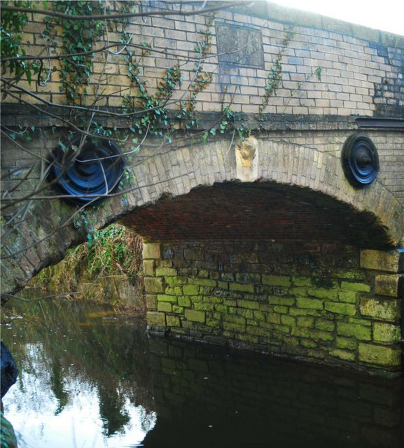 Ancient canal bridge